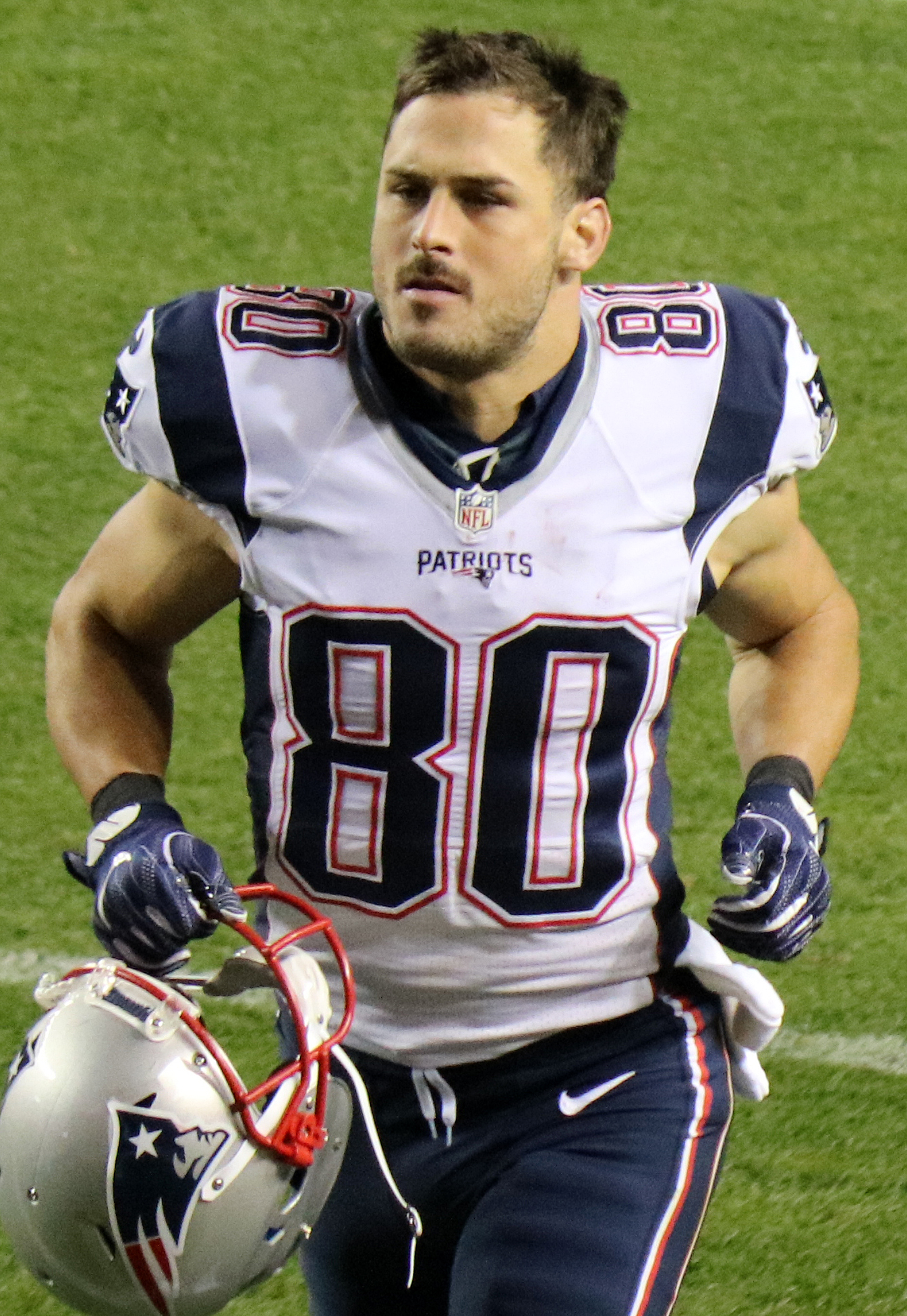 Danny Amendola, a player on the National Football League.